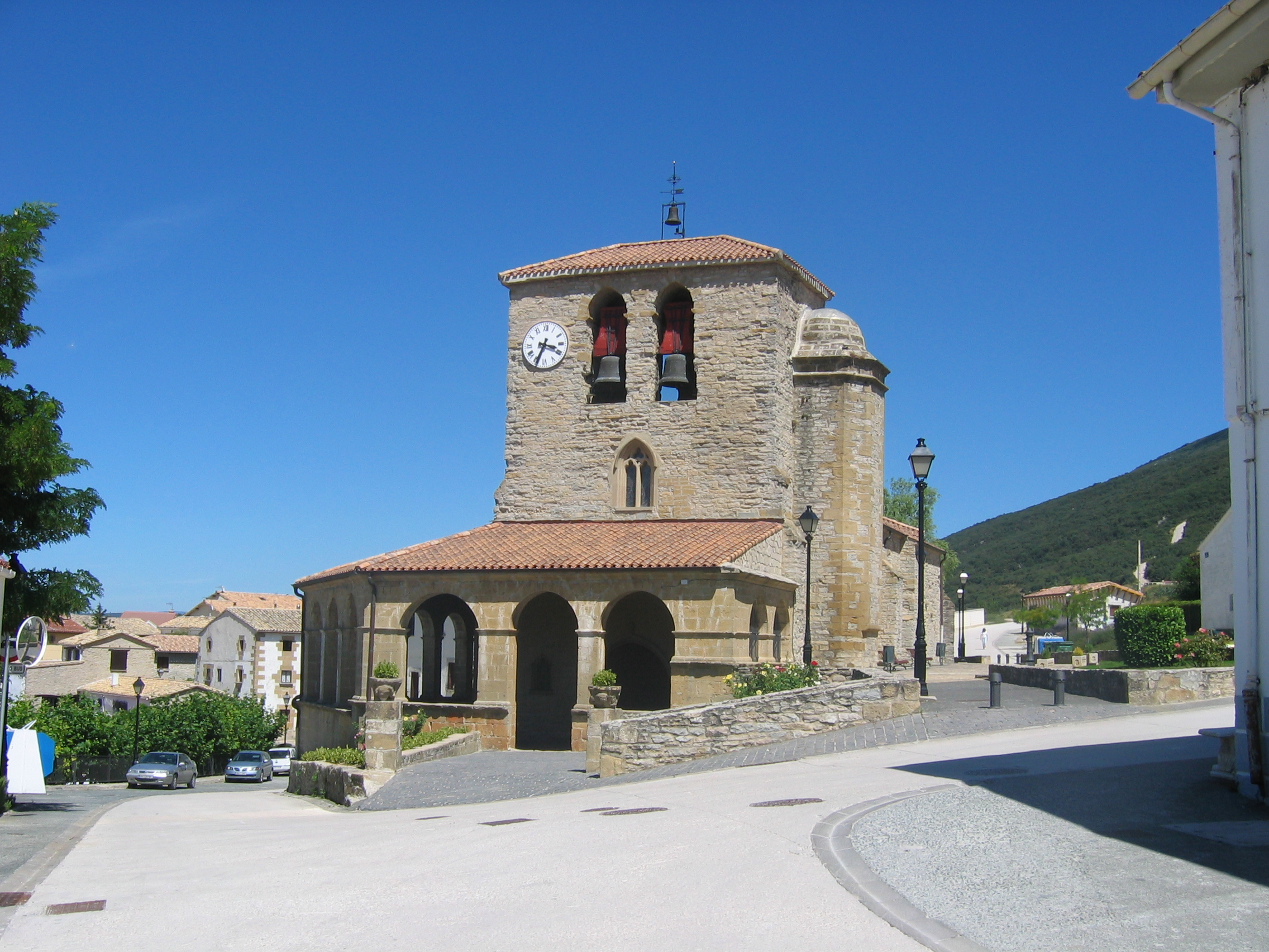 Church Santa Eufemia (Outside)